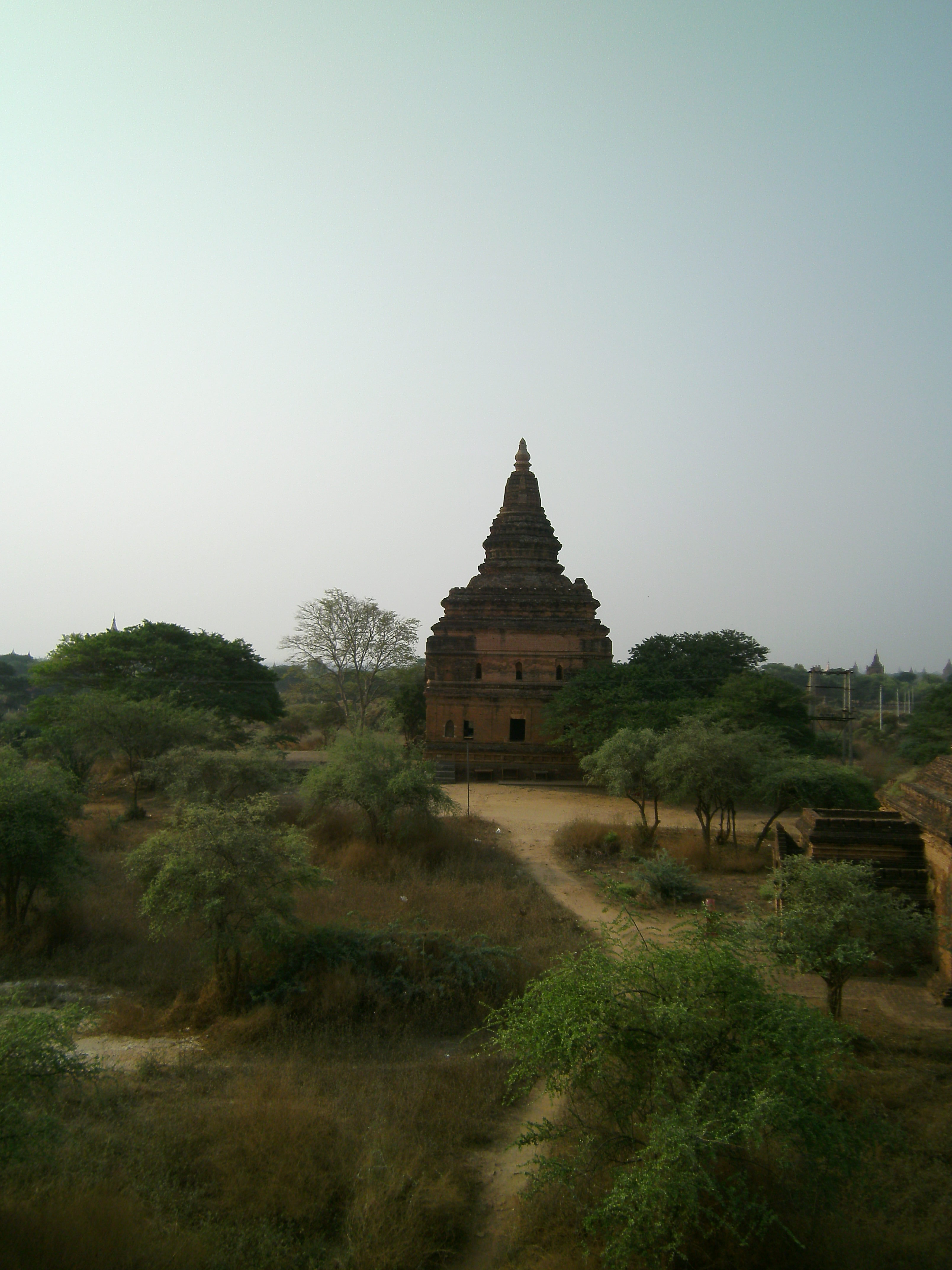 Nat Hlaung Kyaung Vishnu temple was built in 10th century (11th by some historians). It is the oldest surviving temple in that part of Burma, and inspired the style and architecture of numerous Buddhist stupas that followed in Bagan.